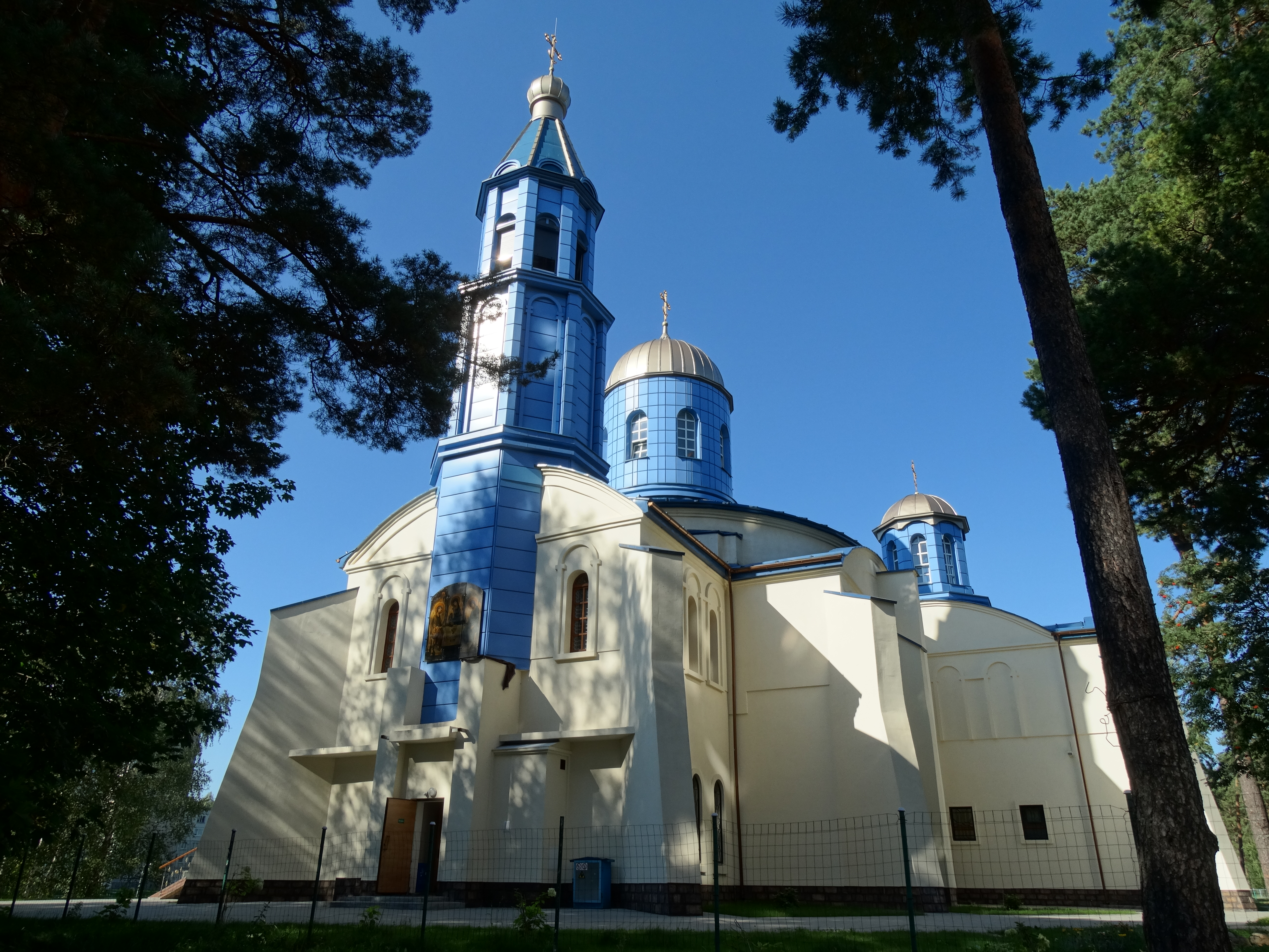 Orthodox Church of St. Martyr Panteleimon, Visaginas, Lithuania